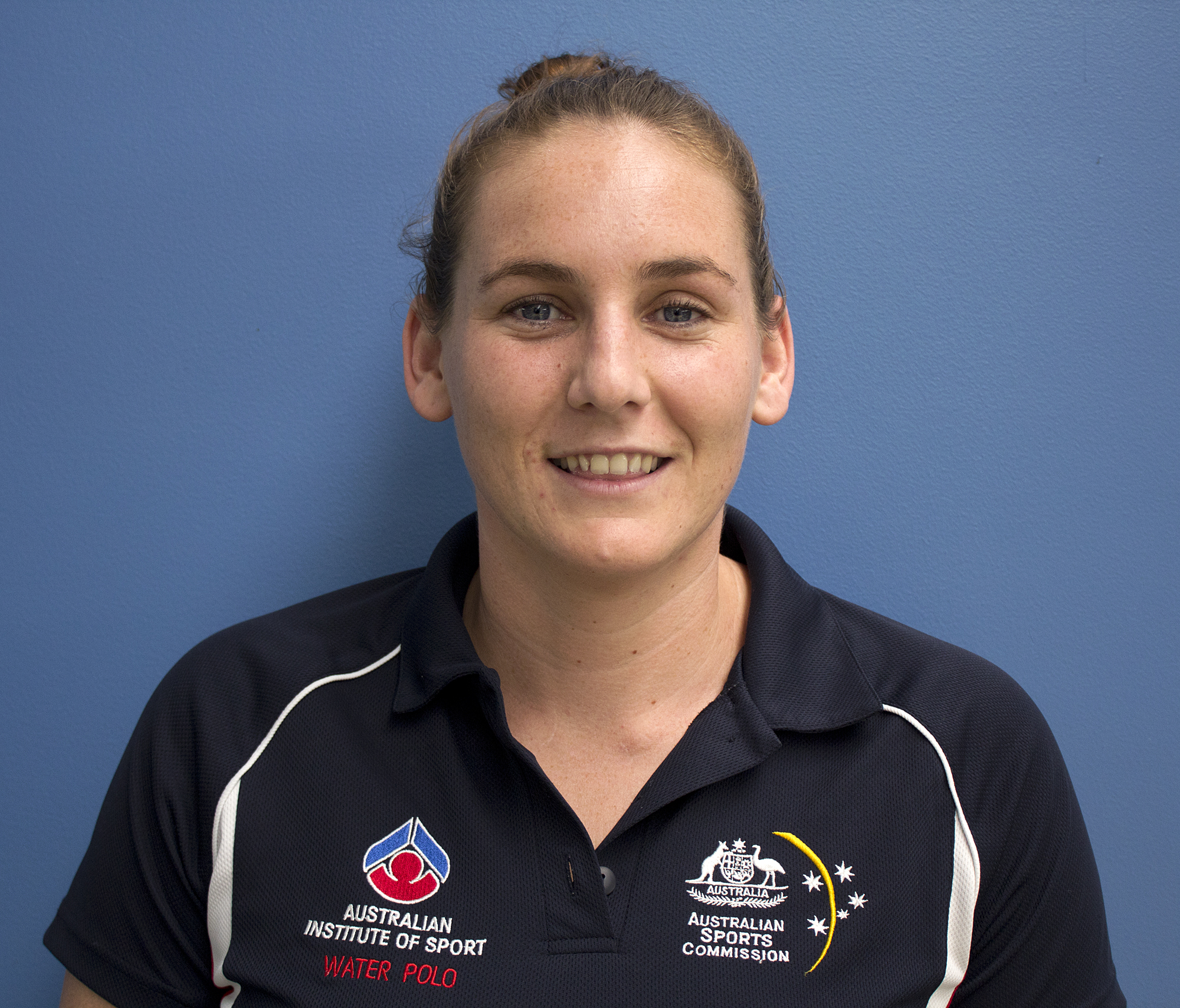 A portrait of Bronwen Knox Australian women's national water polo player.